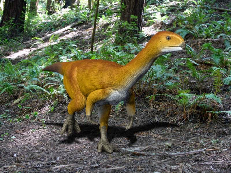 Life reconstruction of Chilesaurus diegosuarezi